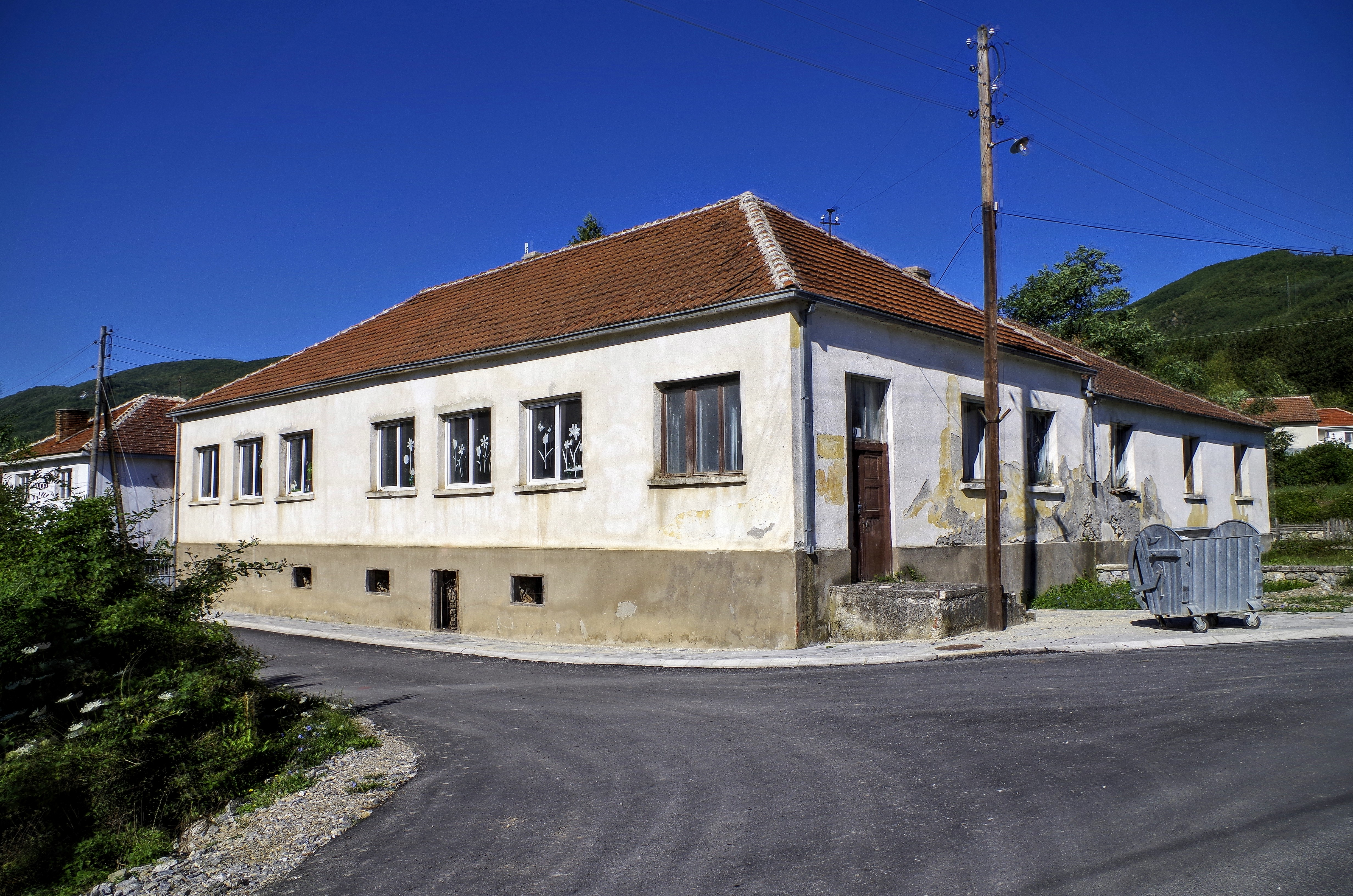 Primary school in the village Botun, Macedonia